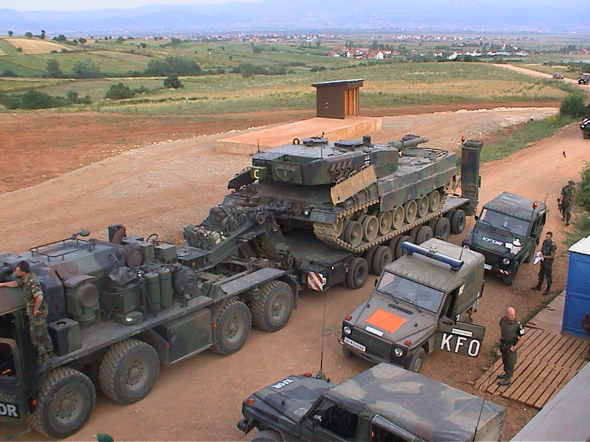 Tank Transporter SLT 50-3 Elefant with 56 t Trailer and Leopard 2A4 at Kosovo.